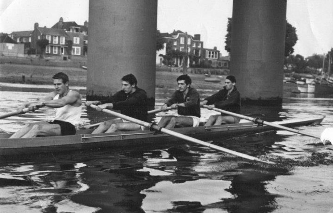 John M Russel (stoke) 1964